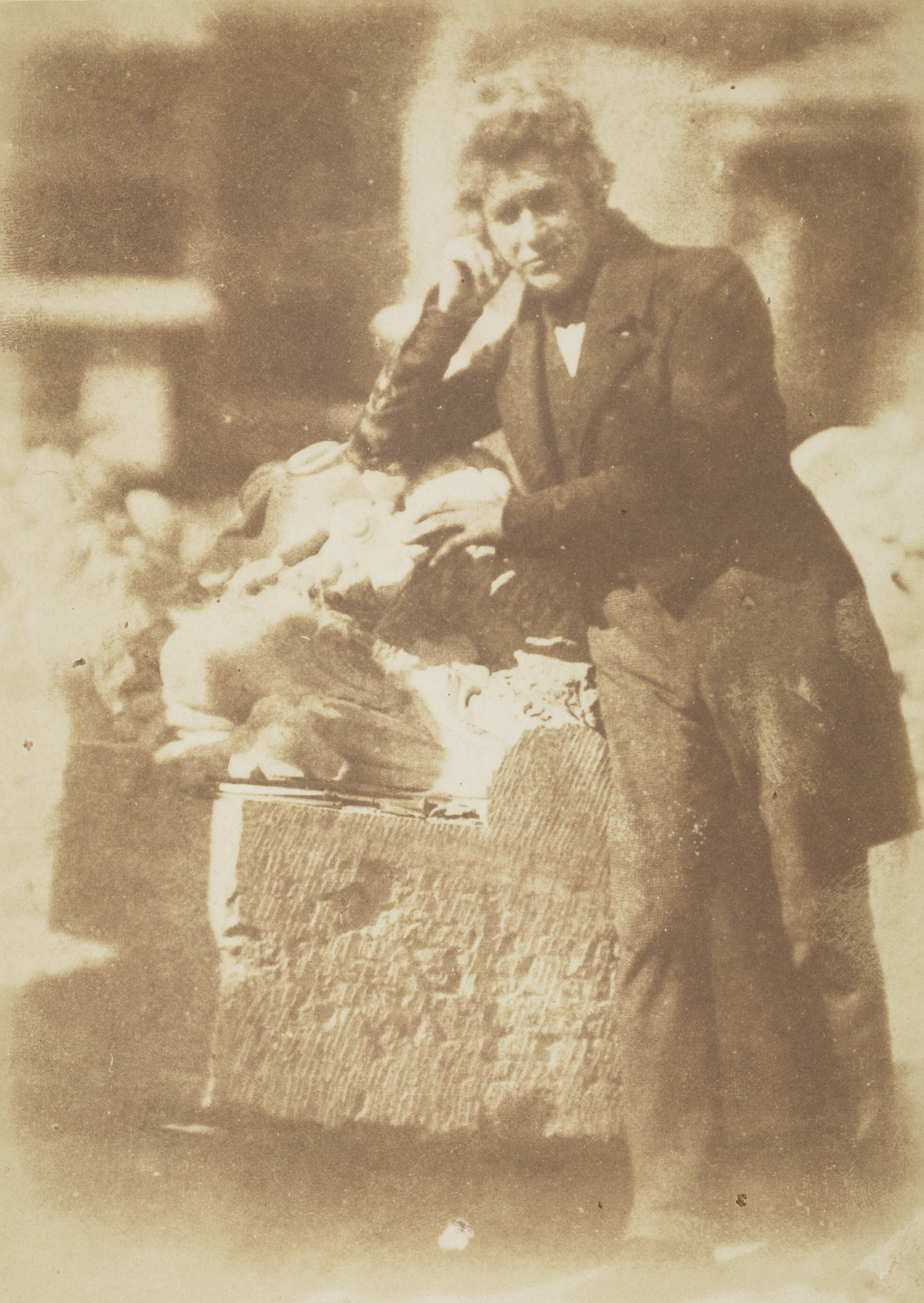 Photograph by David Octavius Hill and Robert Adamson